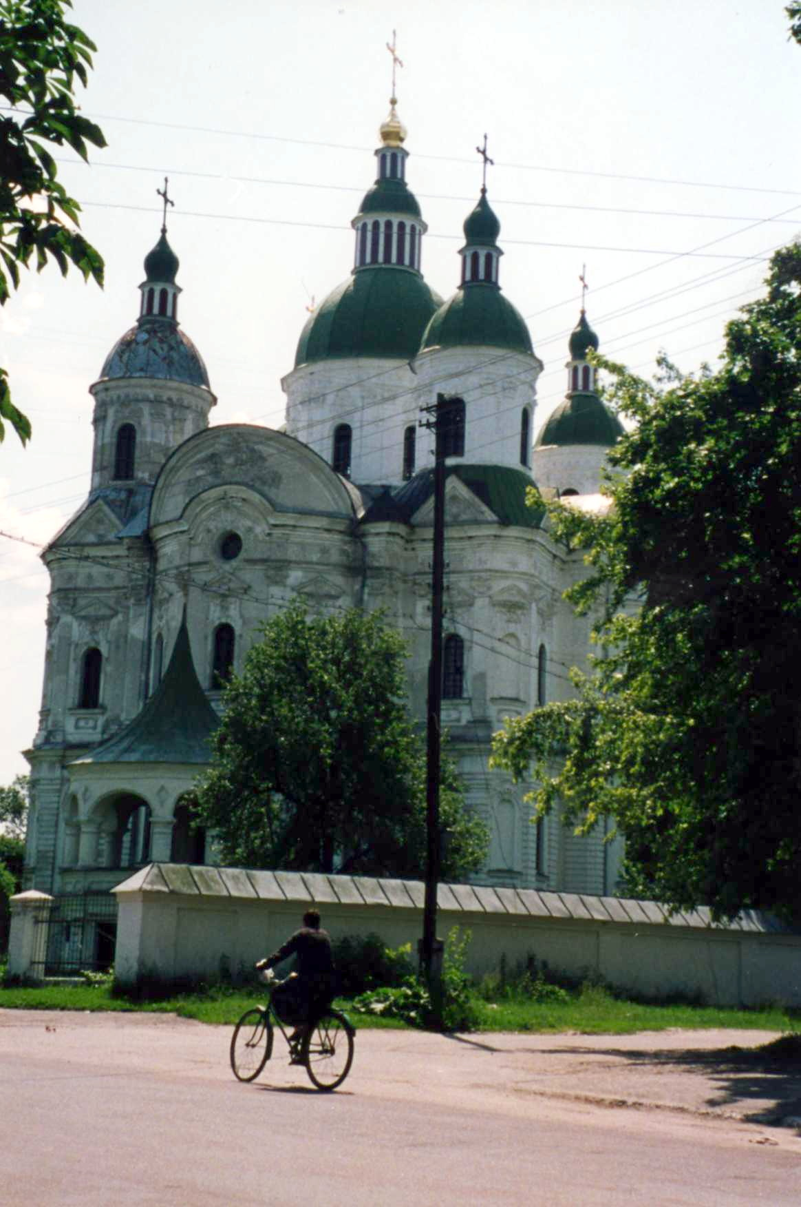 Nativity of the Blessed Virgin Cathedral in Kozelets'